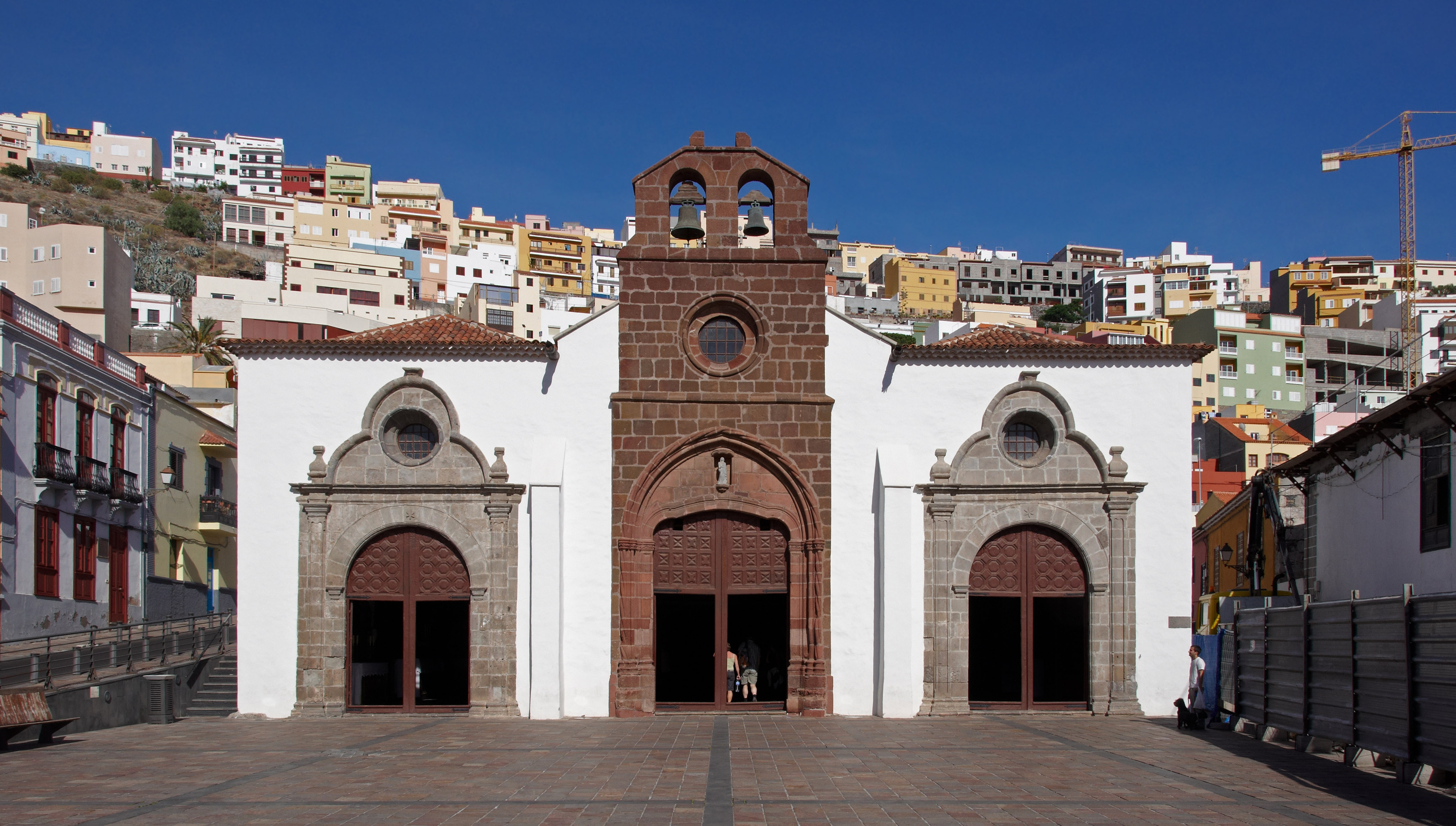 Exterior of the Church of la Asunción, San Sebastián de la Gomera